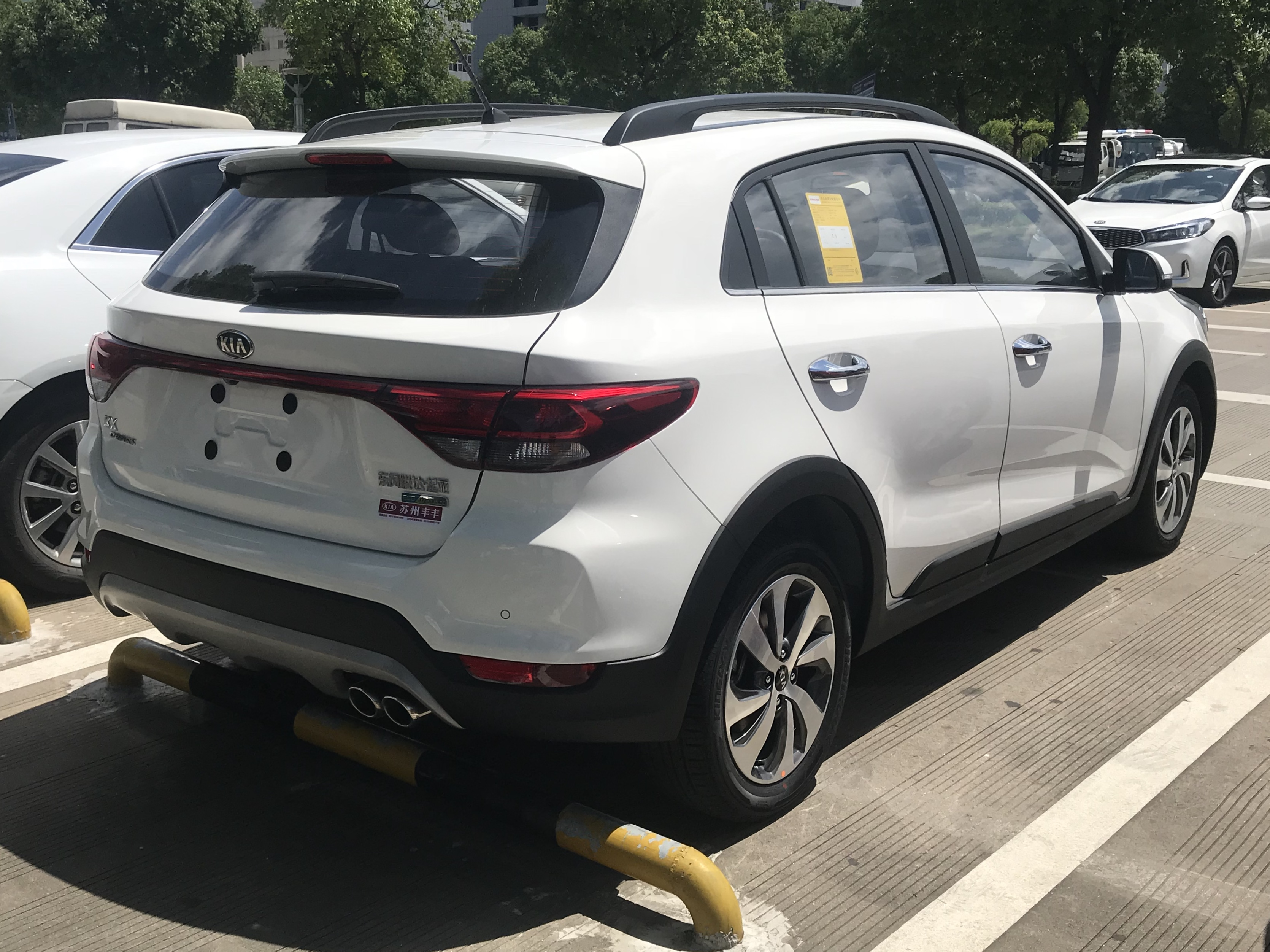 Kia KX Cross